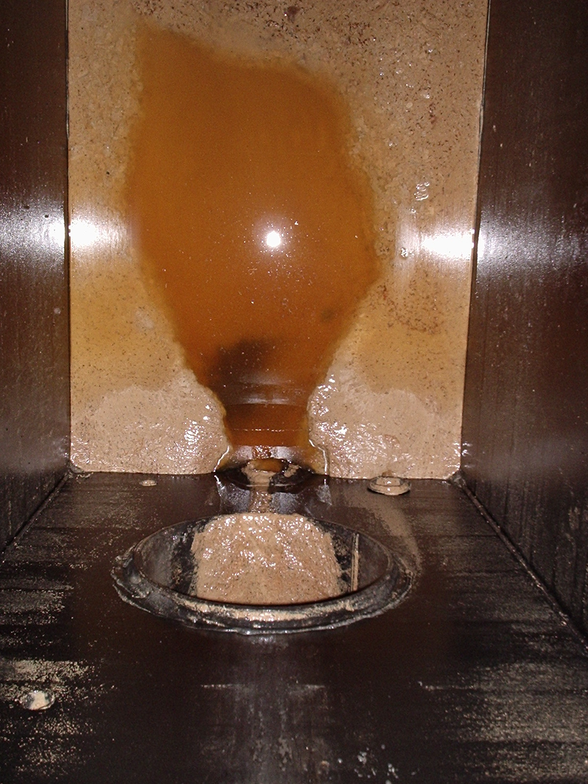 Precipitates which settled during the storage as the base of the tank. Picture was taken by Christian Olt (2008).